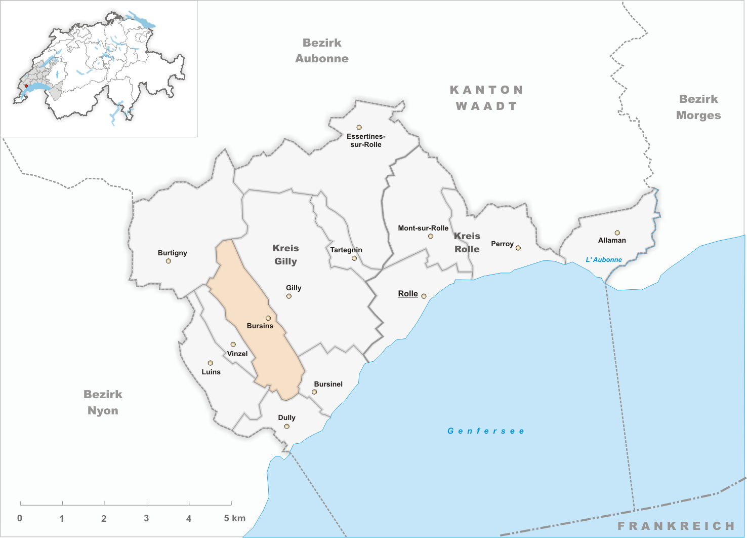 Municipality Bursins